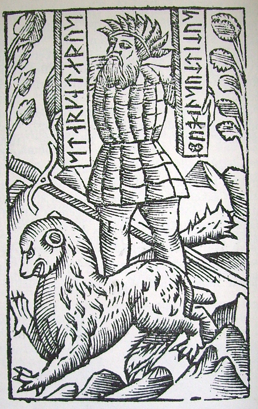 Picture of drawing of the giant Starkad